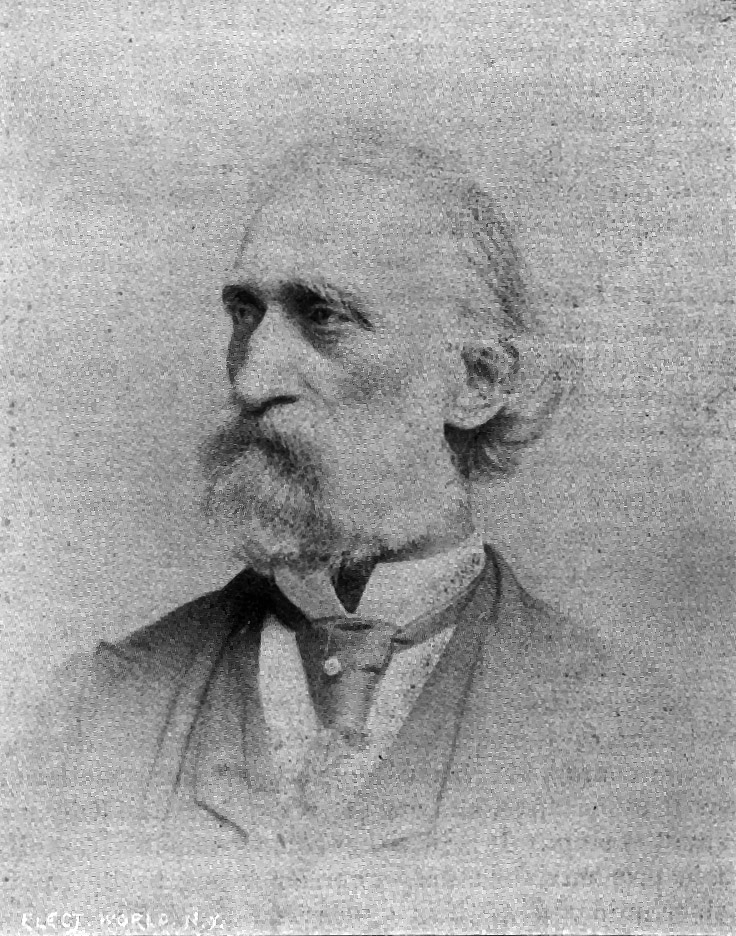 Heinrich Goebel, picture from 1893.